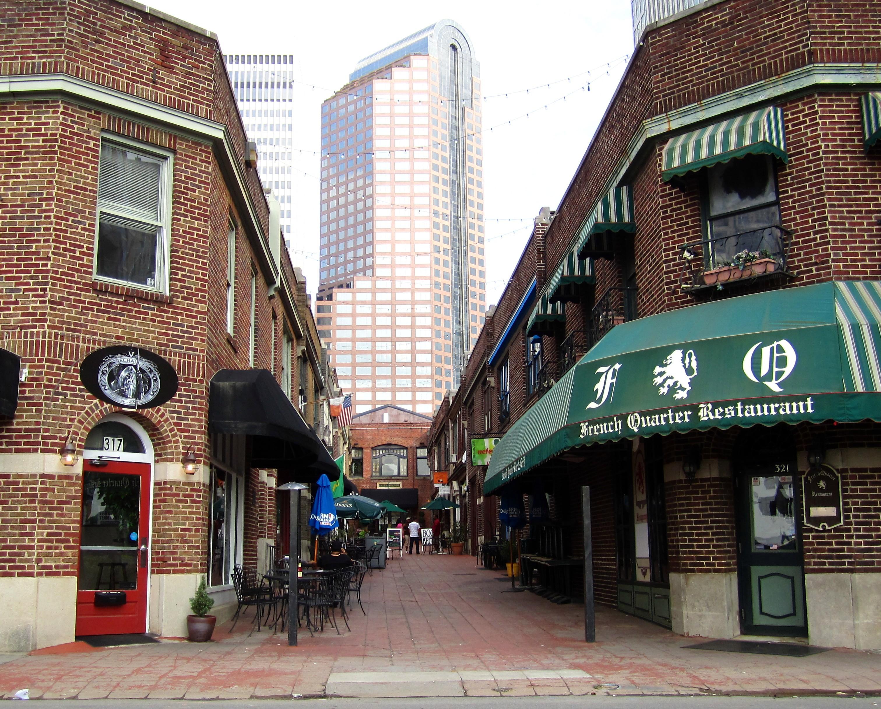 Wells Fargo Tower in Charlotte, NC